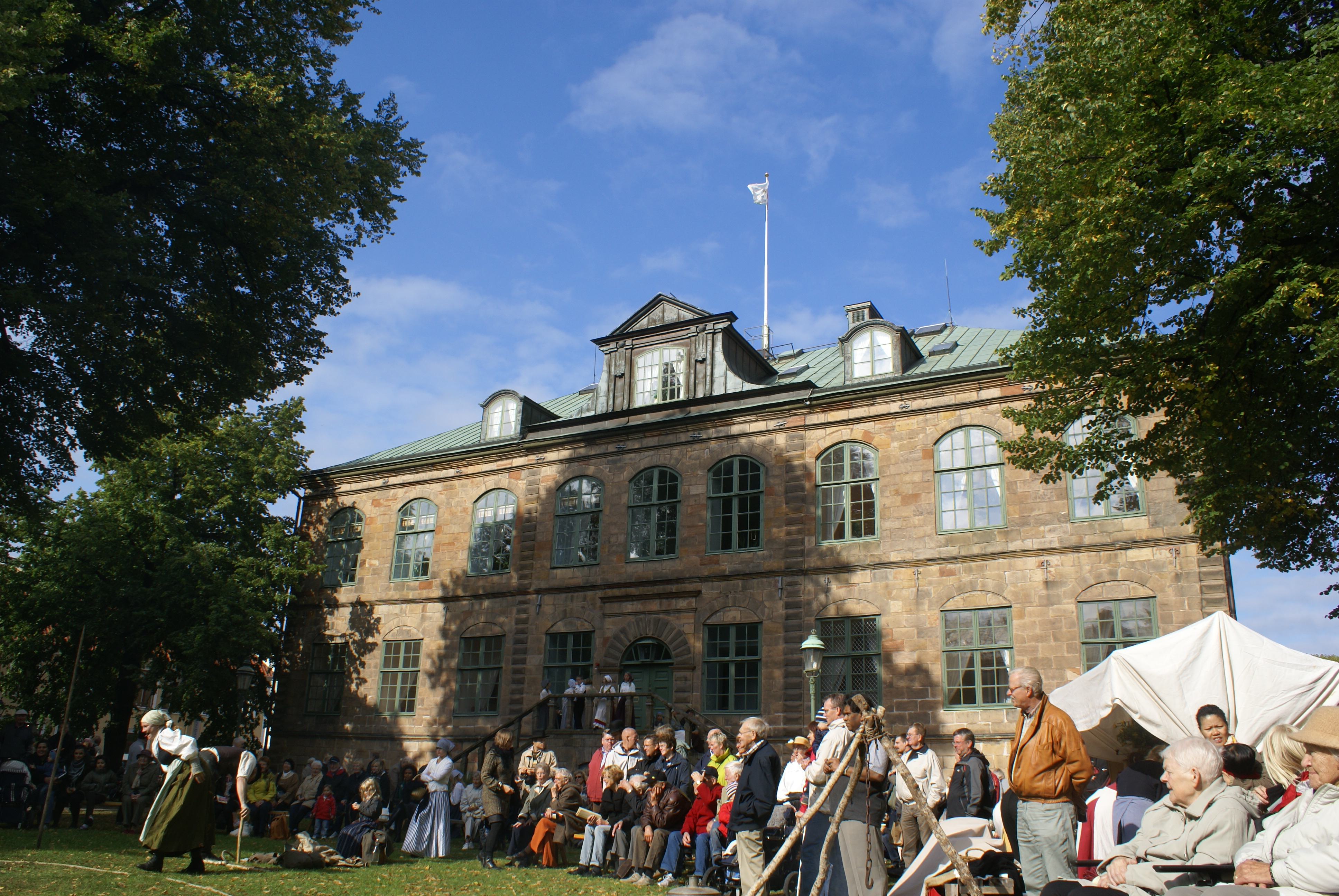 Göta hovrätt during allmogemarknad.